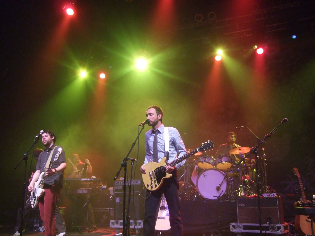 The Shins London Forum 28 March 2007